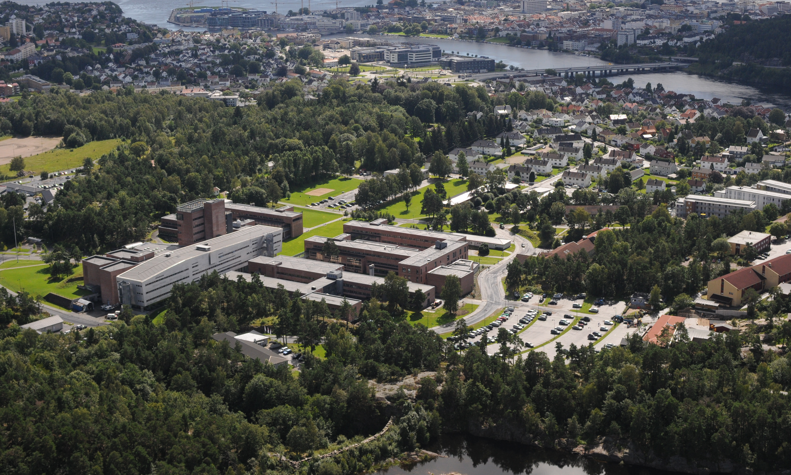 UiA Kristiansand.